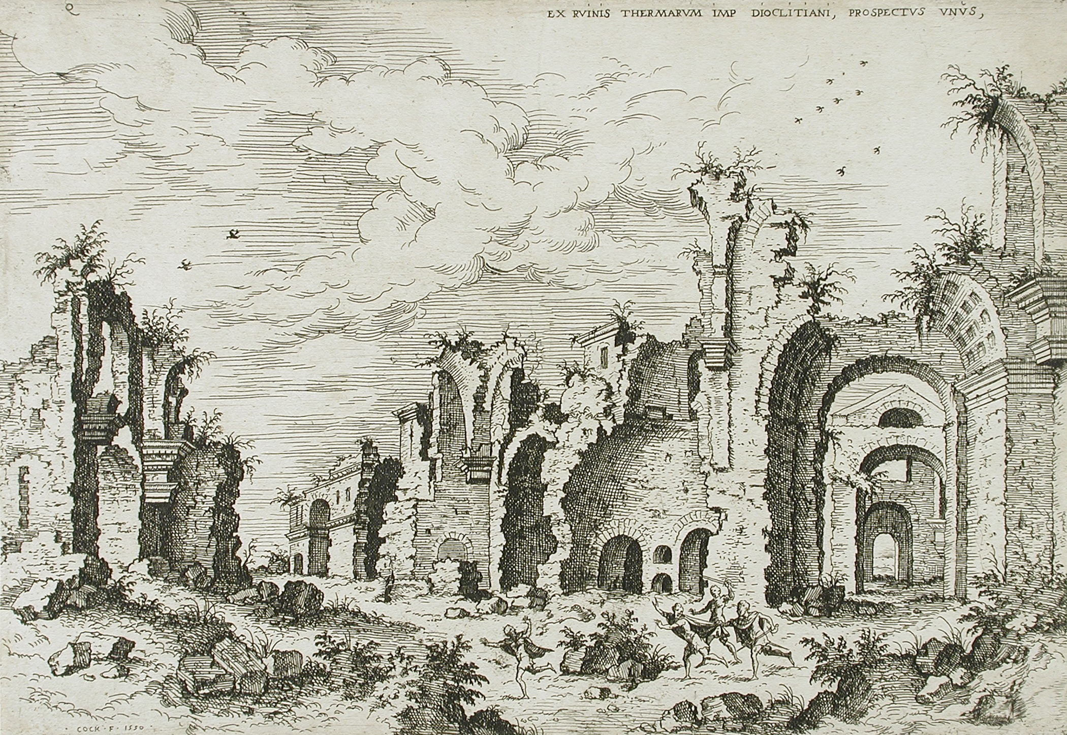 Flanders, 1550 Series: The Set of Roman Ruins Prints; etchings Etching Gift of Mr. and Mrs. William Sabersky (61.18) Prints and Drawings